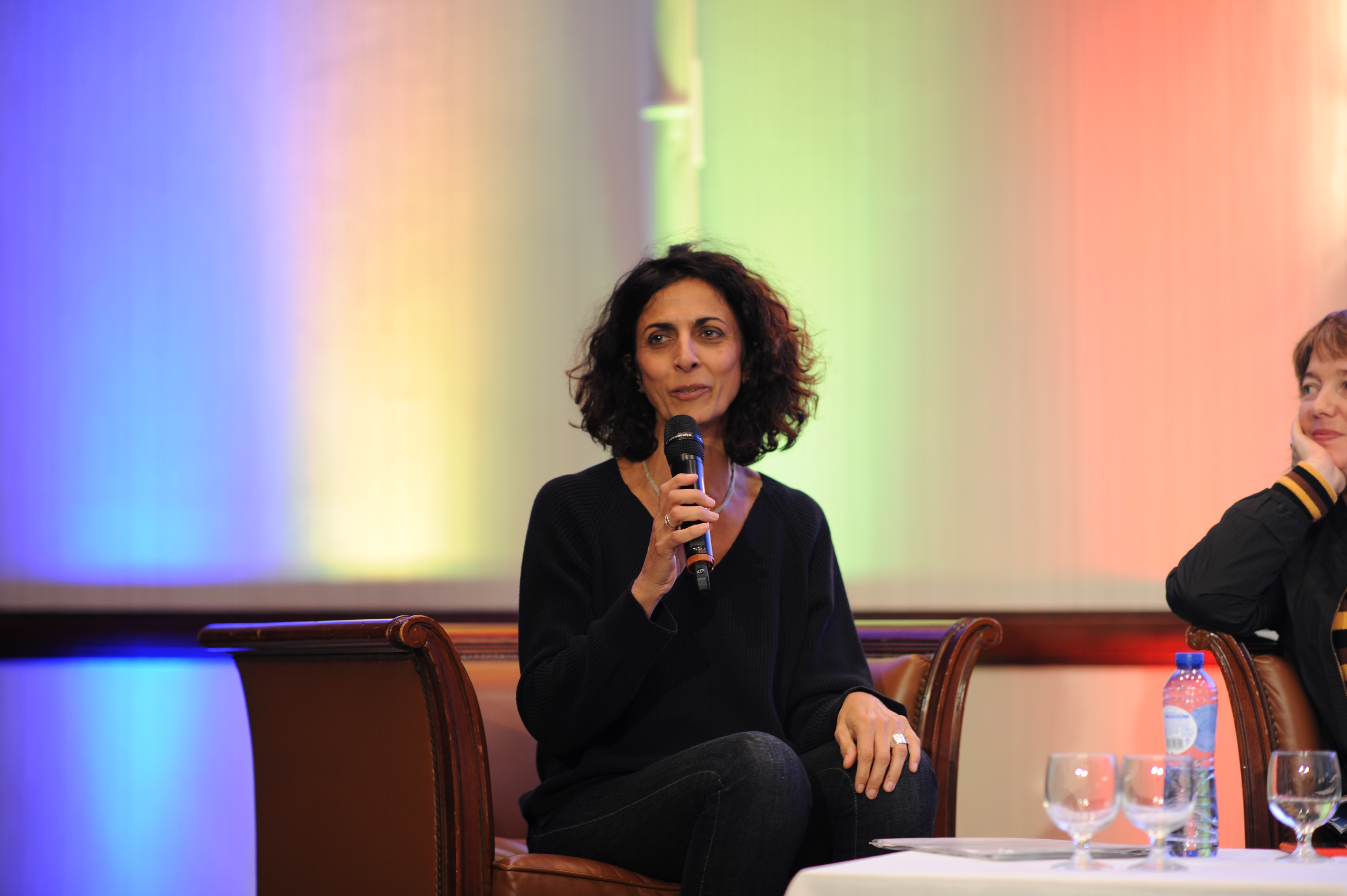 Marie Arena at ILGA conference 2018 Political Town Hall debate